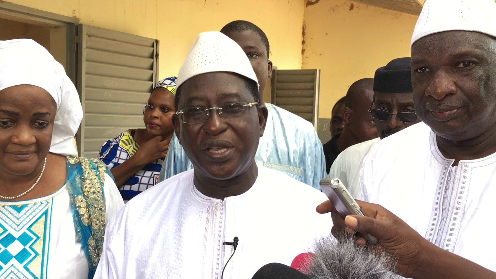 Soumaïla Cissé, opposition candidate, in Niafunké, Mali, 12 August 2018